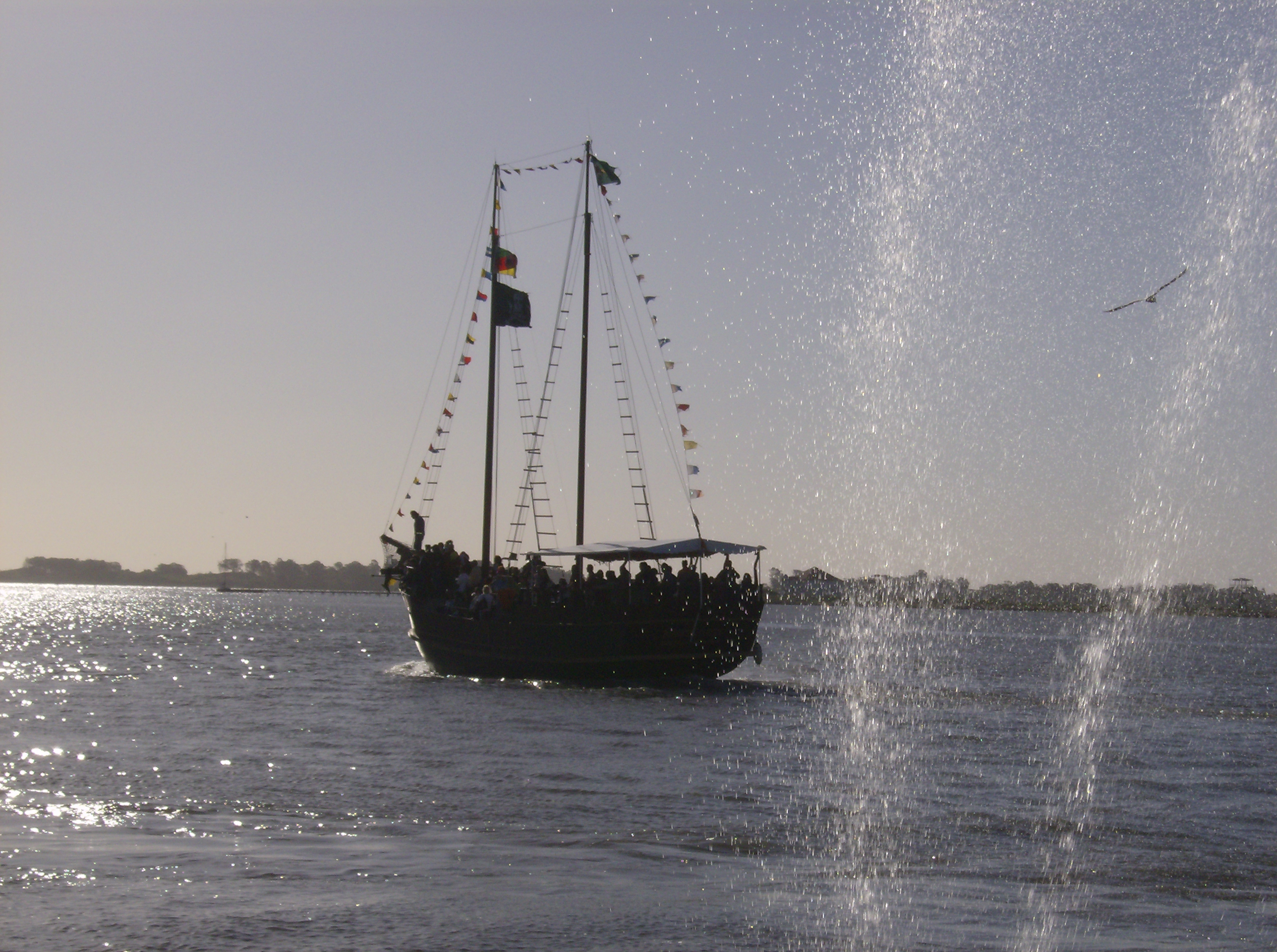 A schooner (named Vento Negro